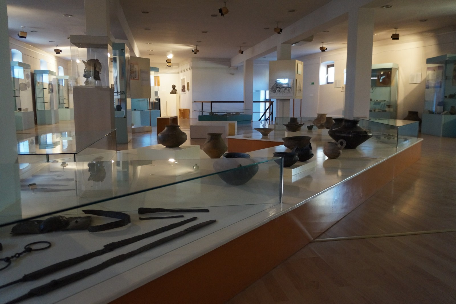 Sombor museum archeology exhibits